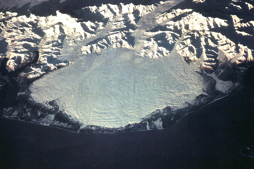 MALASPINA GLACIER, ALASKA (STS066-117-014). Malaspina Glacier can be seen in this north-northeastern photograph taken in figure 12. The glacier, located in the south shore of Alaska is a classic example of a piedmont glacier lying along the foot of a mountain range. The principal source of ice for the glacier is provided by the Seward Ice Field to the north (top portion of the view) which flows through three narrow outlets onto the coastal plain. The glacier moves in surges that rush earlier-formed moraines outward into the expanding concentric patterns along the flanks of the ice mass.